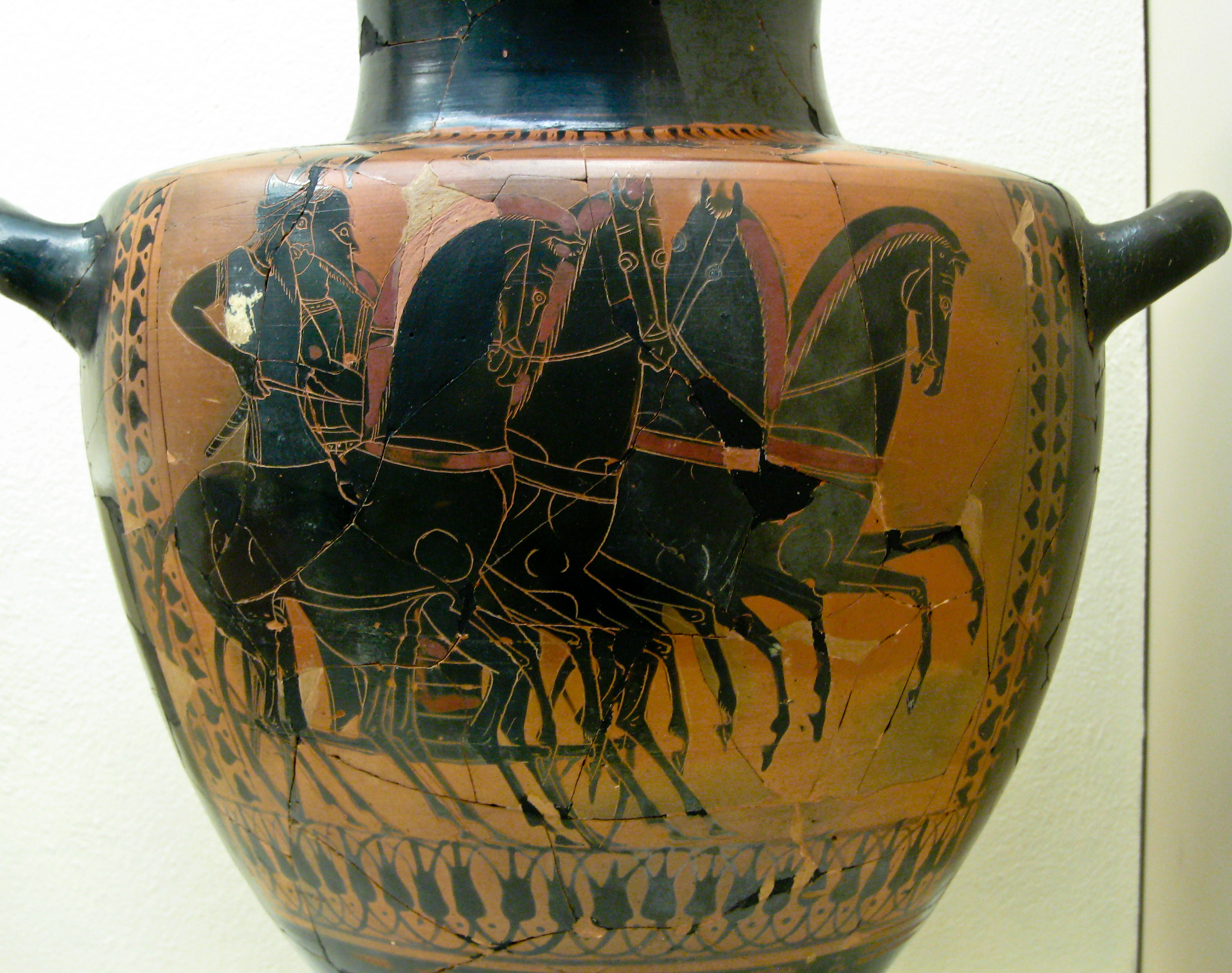 Hydria with Depiction of Quadriga, Charioteer and Hoplite, Workshop of Lysippides Painter, 530-520 BC.